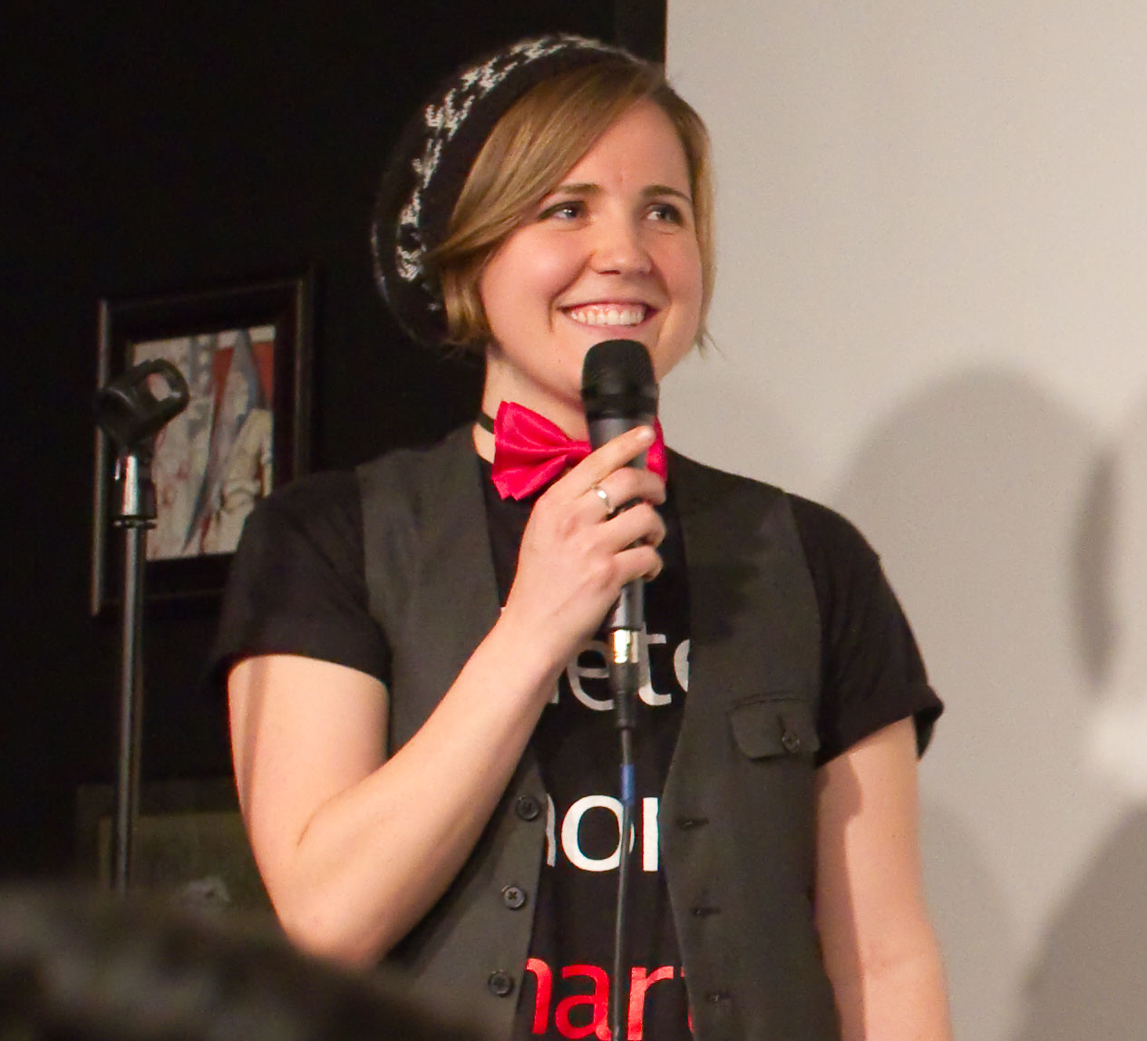 This is a photo of Hannah Hart onstage during the #nofilter comedy show in Los Angeles on March 2, 2013